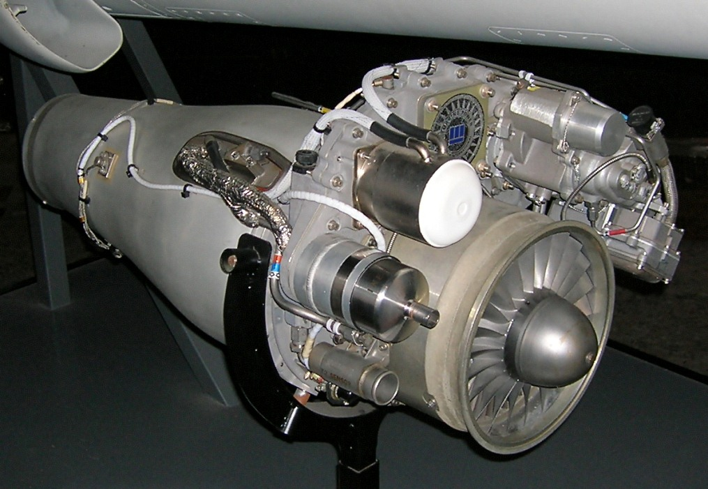 Williams Research F107 turbofan, San Diego Aerospace Museum, California